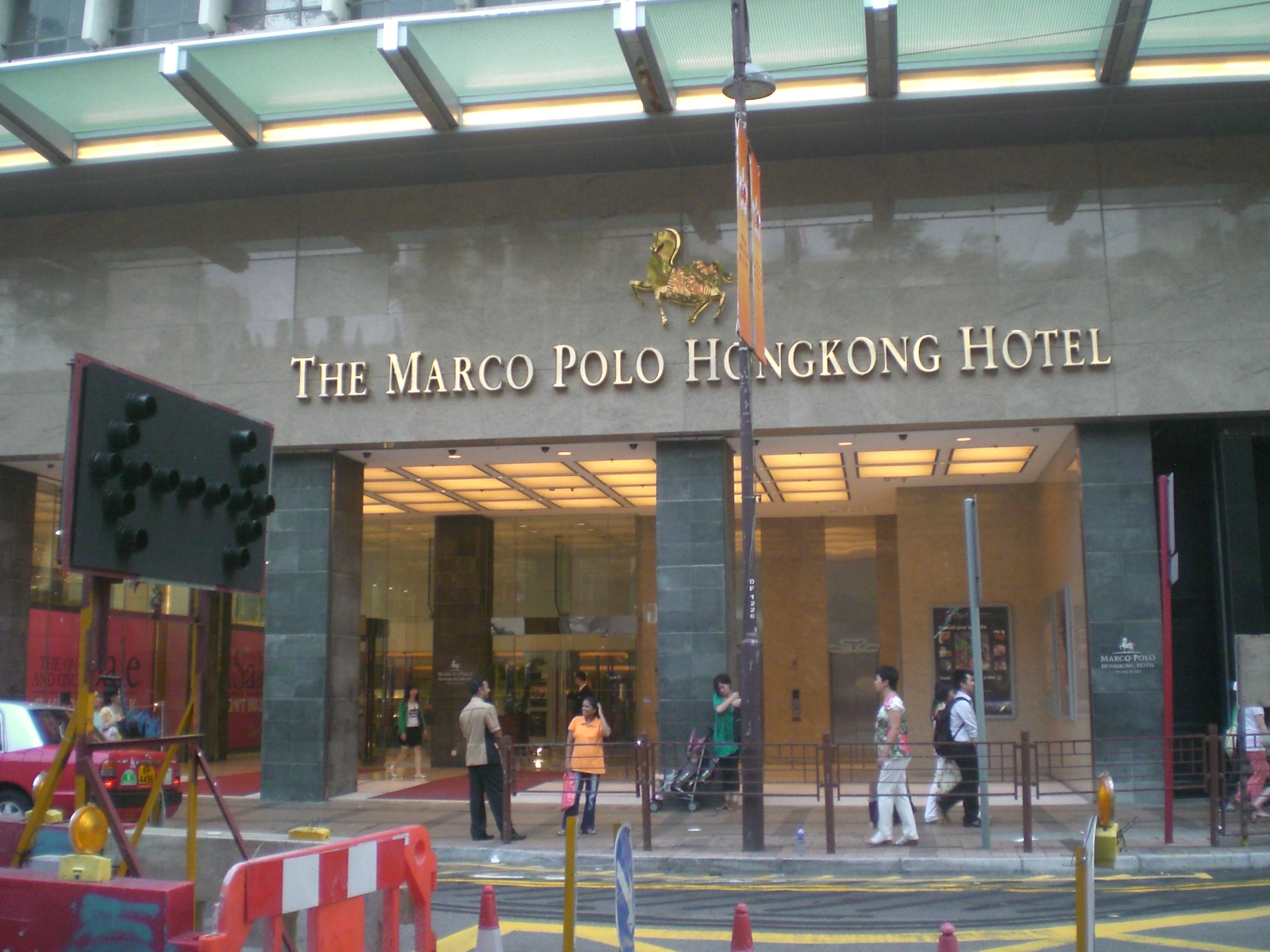 尖沙咀zh:馬哥孛羅香港酒店